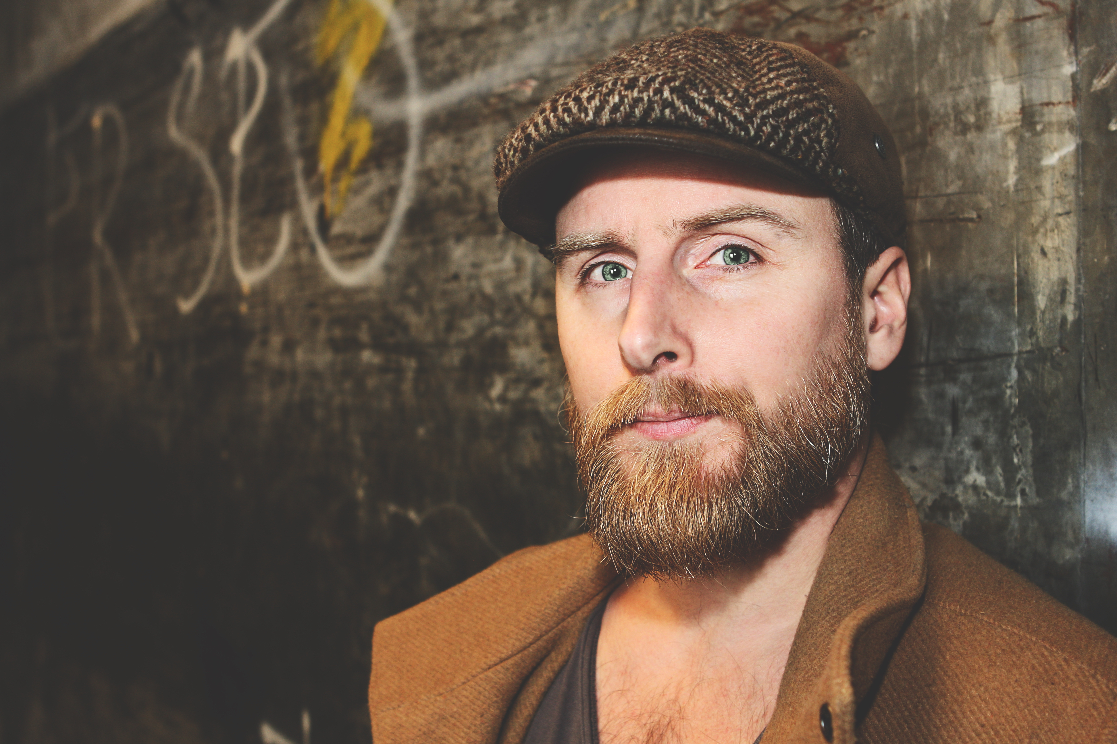 Portrait of the danish singer-songwriter Jonas Dahl from the band Sonja Hald (Denmark).